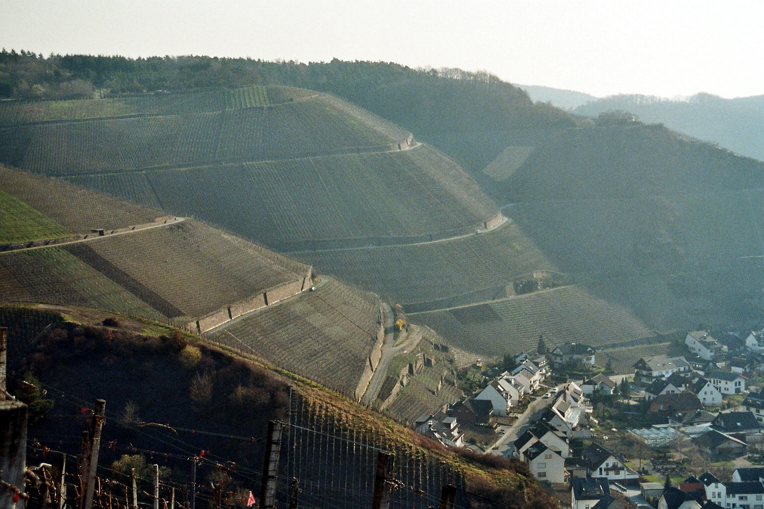 Dernau, vineyards